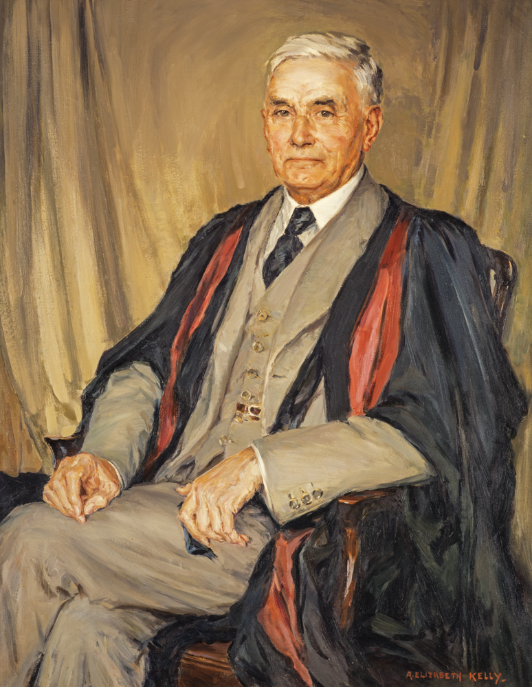 Annie Elizabeth Kelly, ; James Park (1857-1946), Geologist; National Galleries of Scotland